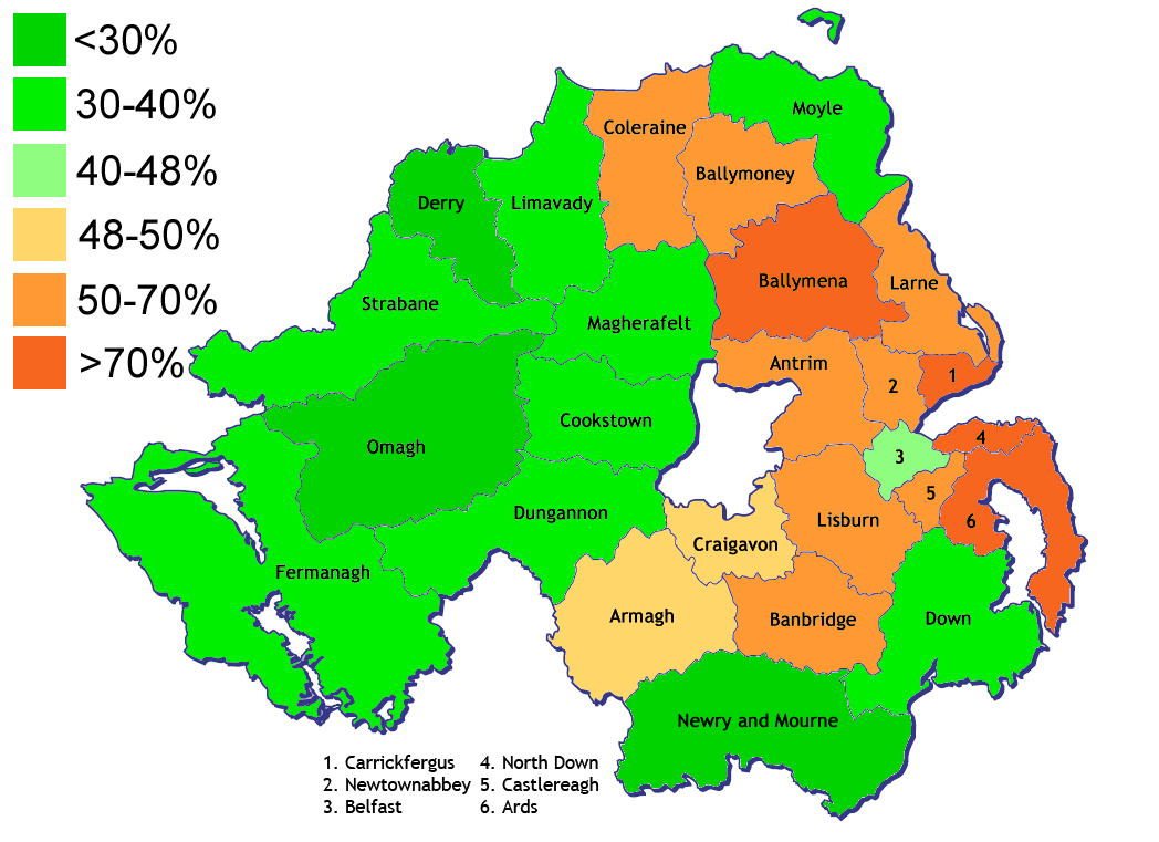 Map of districts in Northern Ireland color coded with percentage of non-Catholic Christians reported in the 2011 census